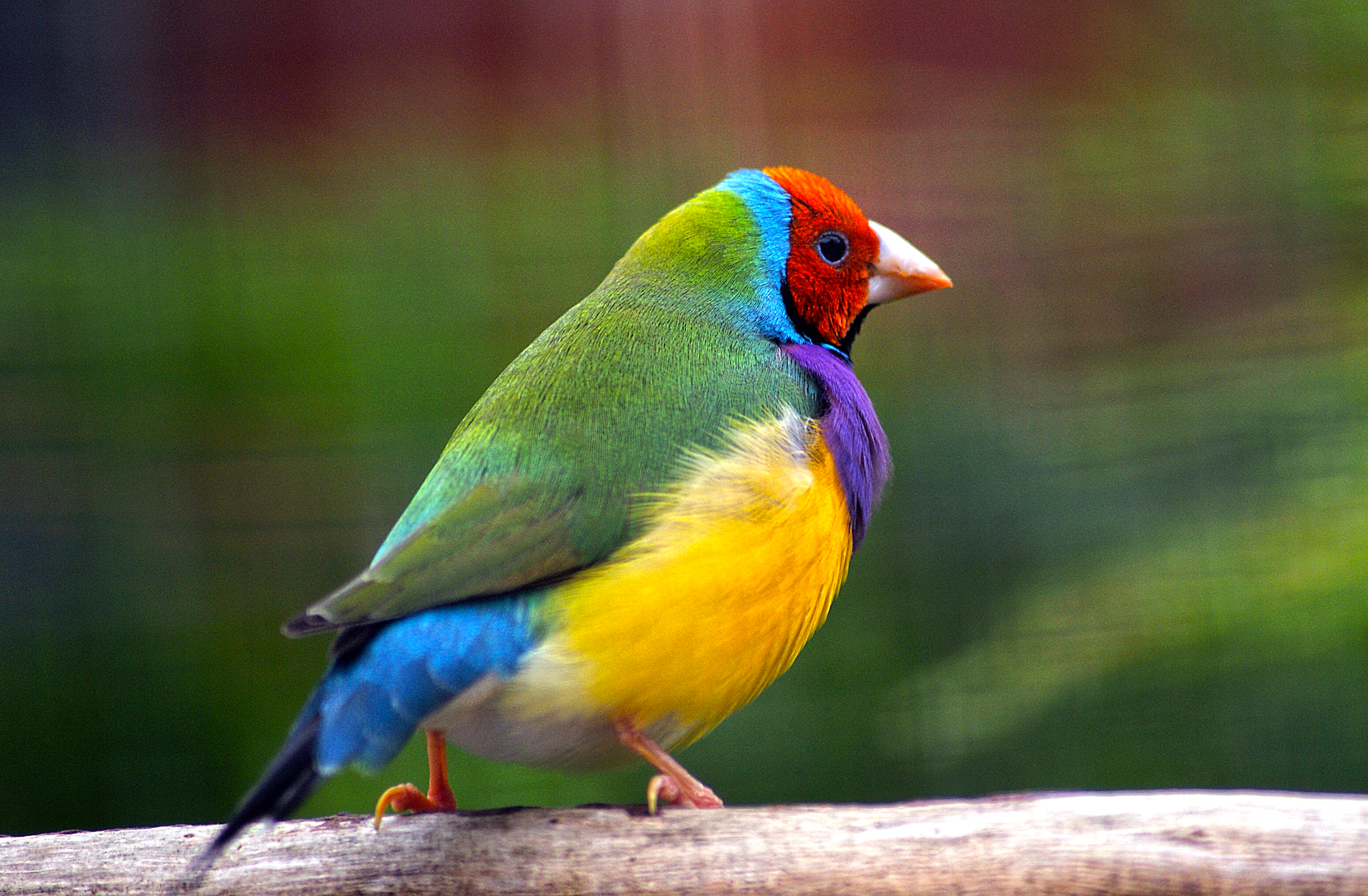 The Gouldian finch (Erythrura gouldiae), also known as the Lady Gouldian finch, Gould's finch or the rainbow finch, is a colourful passerine bird endemic to Australia. There is strong evidence of a continuing decline, even at the best-known site near Katherine in the Northern Territory. Large numbers are bred in captivity, particularly in Australia. In the state of South Australia, National Parks & Wildlife Department permit returns in the late 1990s showed that over 13,000 Gouldian finches were being kept by aviculturists.